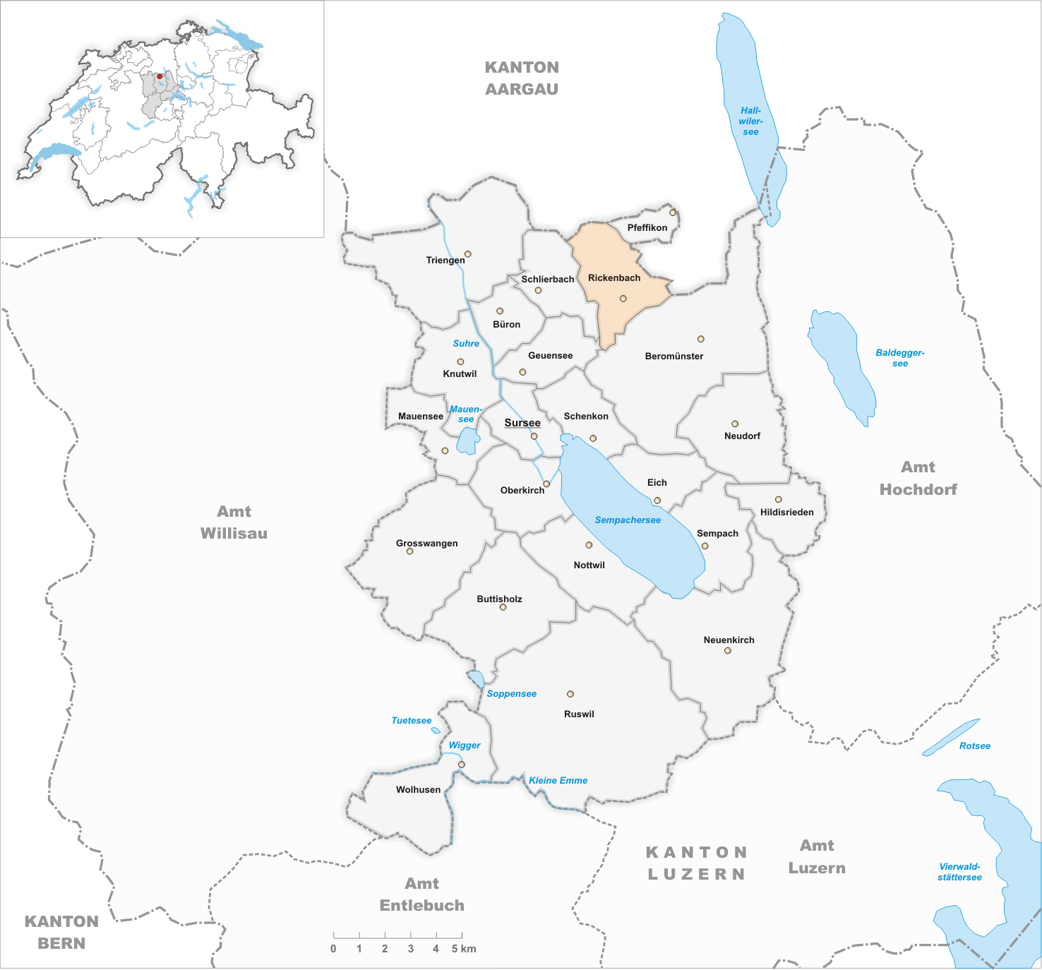 Municipality Rickenbach